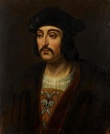 This artwork was a command by French king Louis-Philippe for his Musée de l'Histoire de France located in Versailles. Copy after an original in the Château de Beauregard